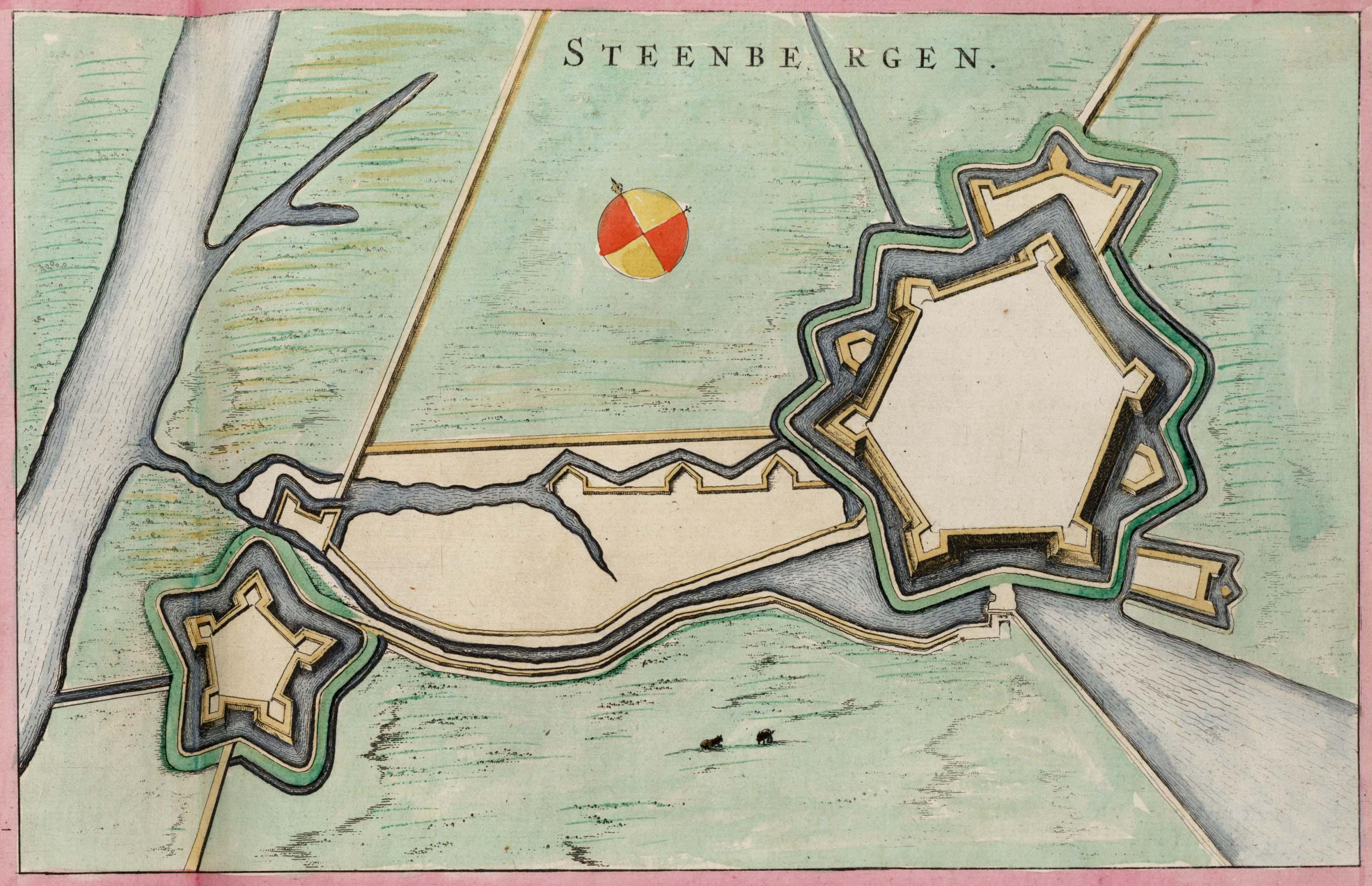 Steenbergen.